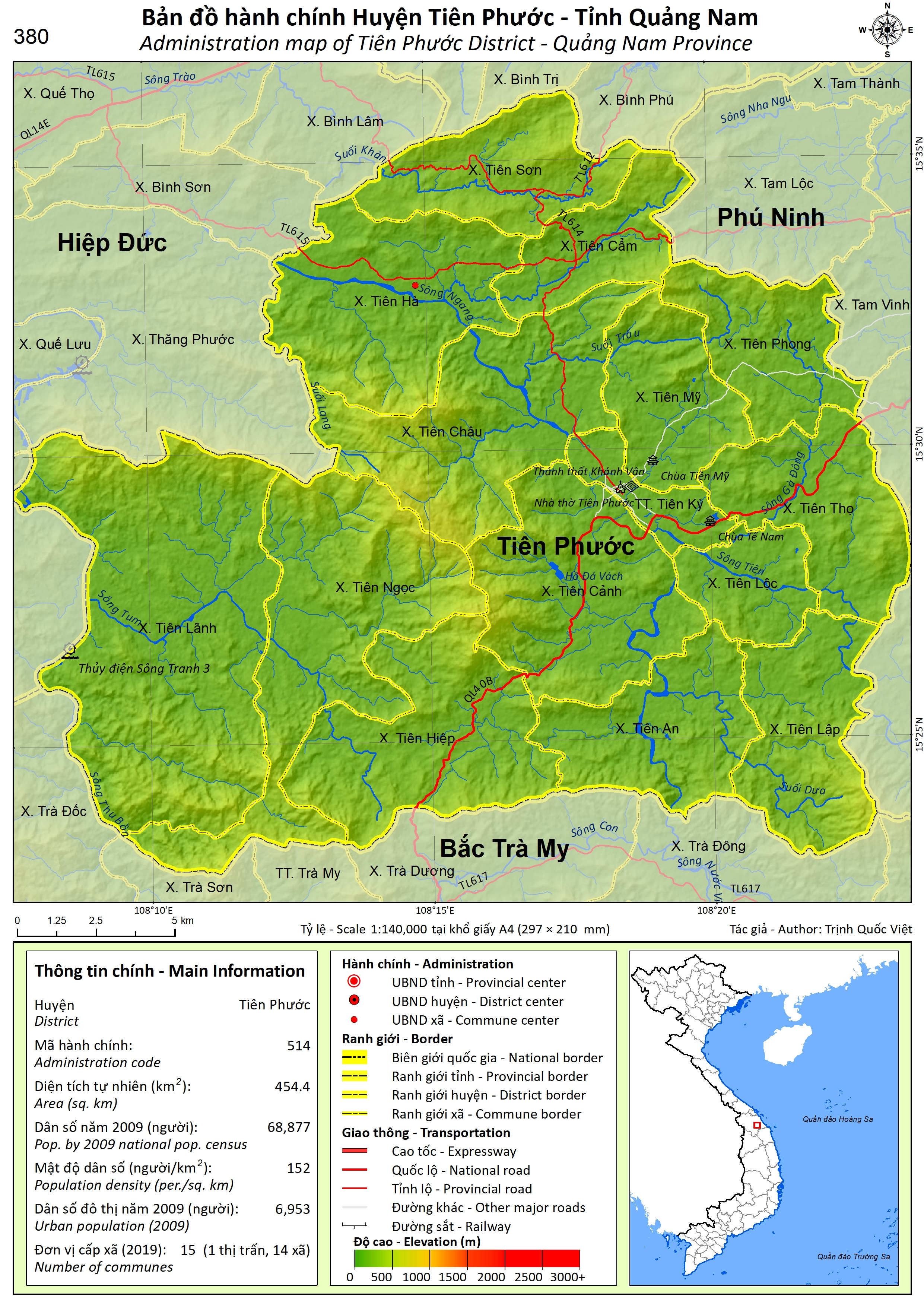 Administration map of Tien Phuoc District